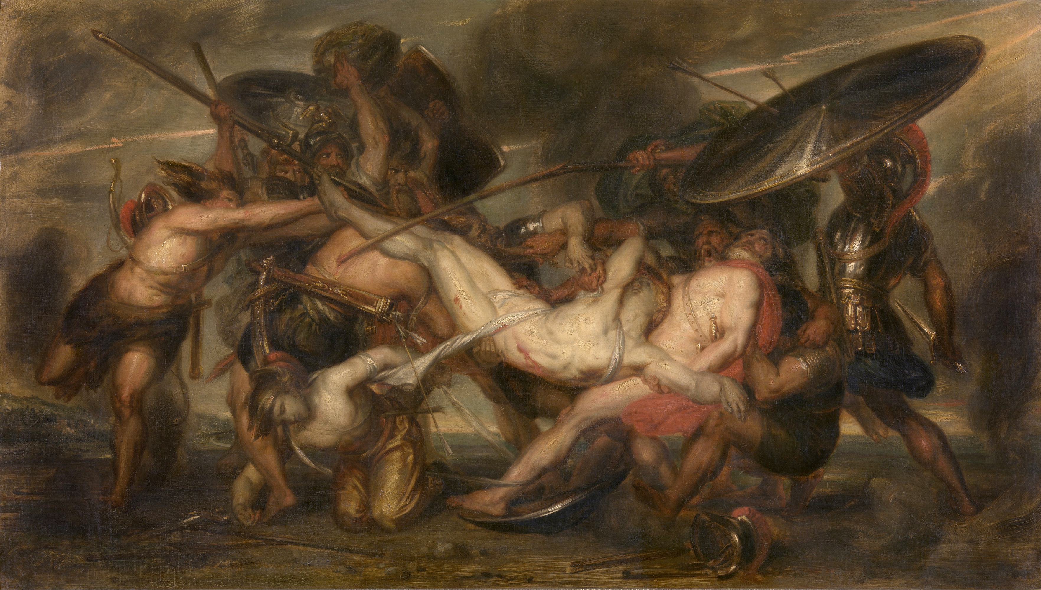 The Greeks and the Trojans Fighting over the Body of Patroclus by Antoine Wiertz, 19th Century